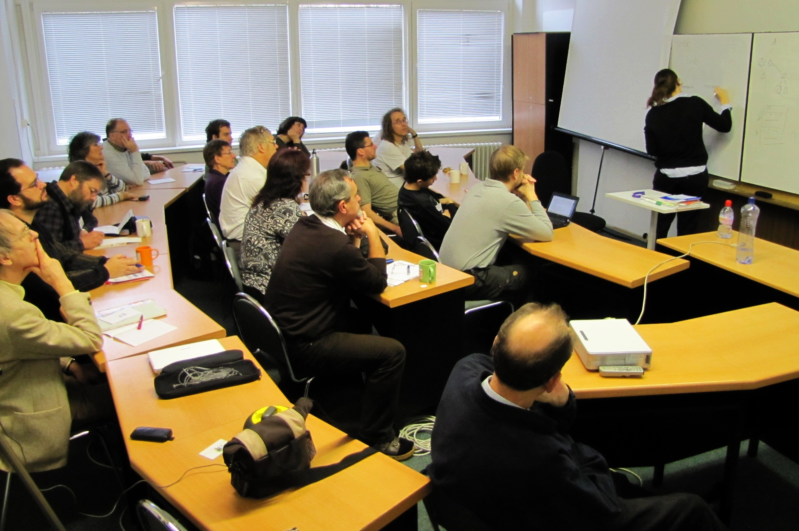 Lecture (in Esperanto) on terminology by Mélanie Maradan (Switzerland) during the KAEST 2010 conference organized by E@I in Modra (Slovakia).